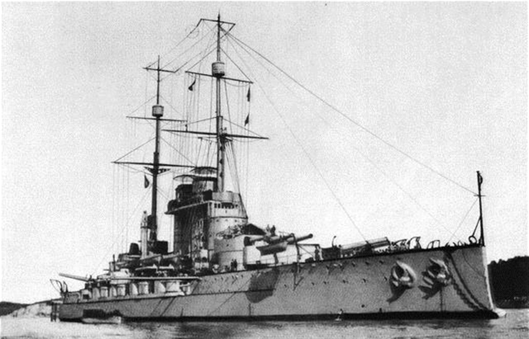 SMS Szent István (His Majesty's Ship Saint Stephen)[a] was the last of four Tegetthoff-class dreadnought battleships built for the Austro-Hungarian Navy.